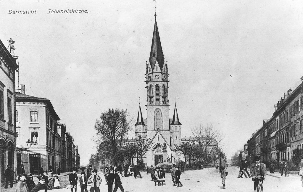 Johannes Square and Johannis Church in Darmstadt, around 1900. Directly in front of the church you see the monument of Dr. August Metz (1818-1874), created by Munich-born sculptor Benedikt von König (1848-1906).